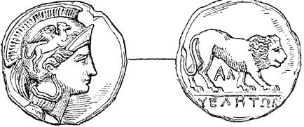 Coin of Elea. Head of Athena right, in crested Attic helmet with griffin / lion walking right, ΑΛ monogram under belly, ΥΕΛΗΥΩΝ in exergue.